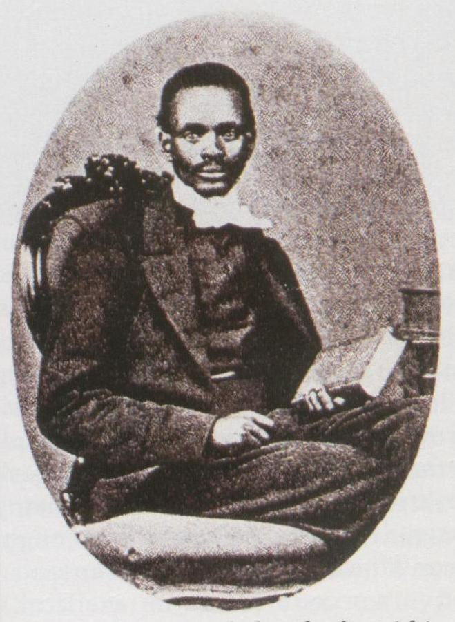 Tiyo Soga. An African nationalist politician of the Cape Colony in the 1800s.